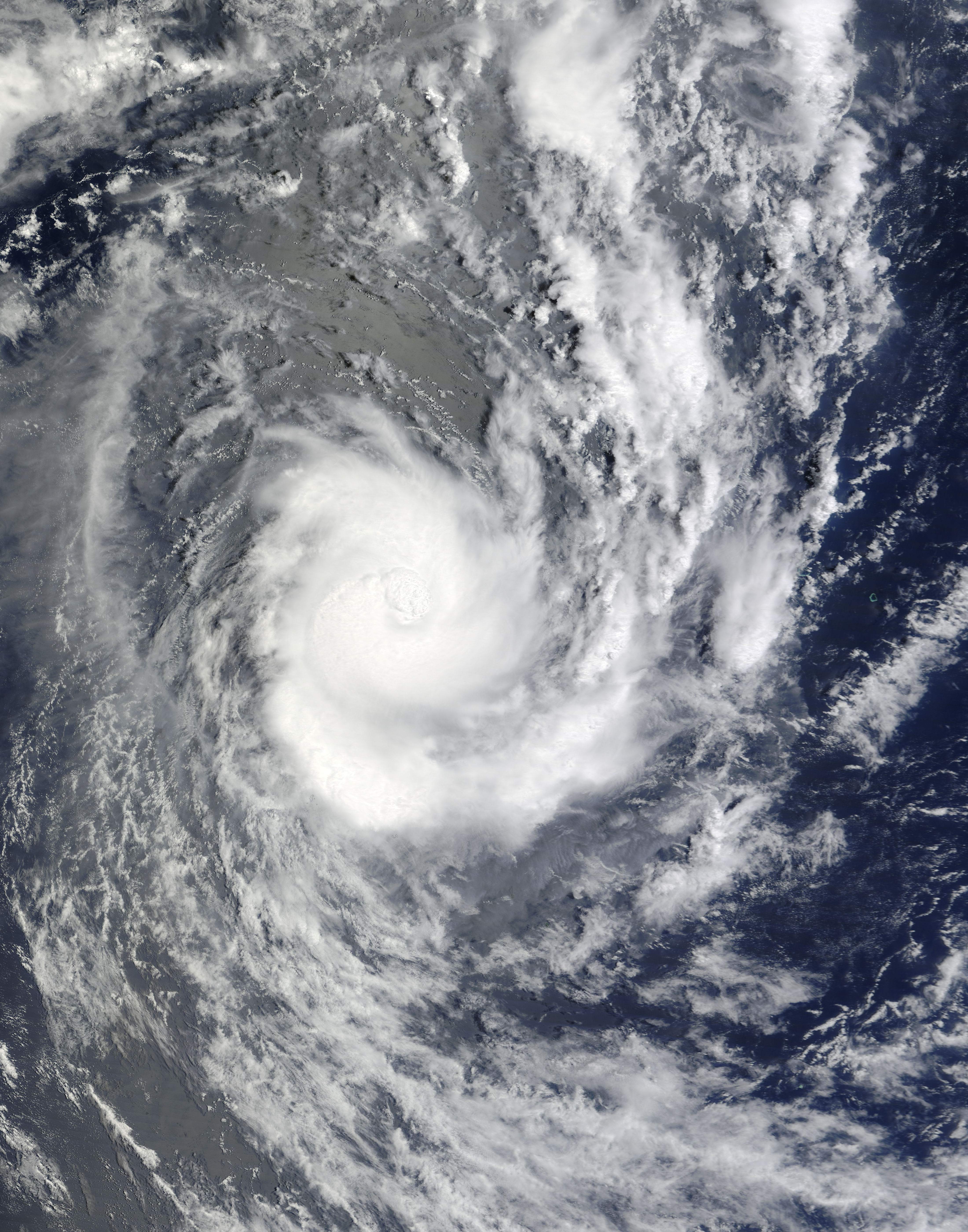 MODIS image of Tropical Cyclone Pat on February 9, 2010.